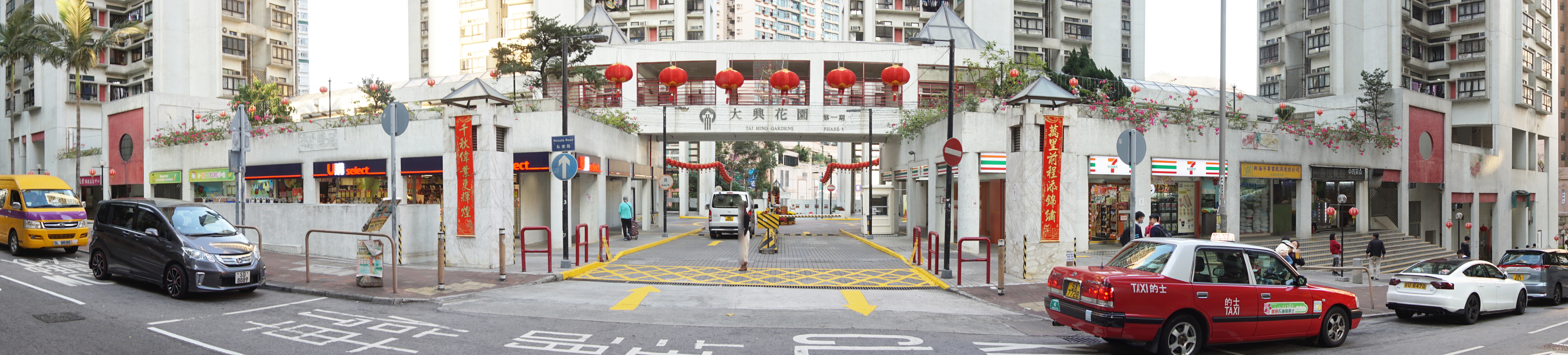 Tai Hing Gardens in Tuen Mun, Hong Kong.